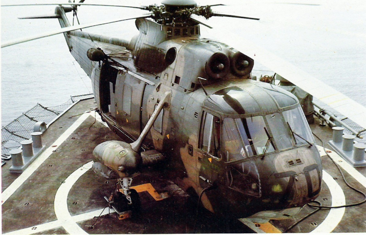 A camouflaged U.S. Navy Sikorsky SH-3A Sea King helicopter on the fantail of the guided missile destroyer USS Mahan (DLG-11) in May 1967. The U.S. Navy stripped several SH-3As of their ASW-equipment and used them for armed search-and-rescue missions in the Gulf of Tonkin and North Vietnam. This helicopter was assigned to helicopter anti-submarine squadron HS-2 Golden Falcons as part of Carrier Anti-Submarine Air Group 57 (CVSG-57) aboard the aircraft carrier USS Hornet (CVS-12). However, the SAR-helicopters were often based on guided missile destroyers (then called "frigates"), which had small landing pads with less than one meter clearance to the superstructure. This SH-3A, BuNo 148985 (tail code NV-70), was lost at sea two weeks after this photograph was taken on 23 May 1967, with the loss of the crew of four.